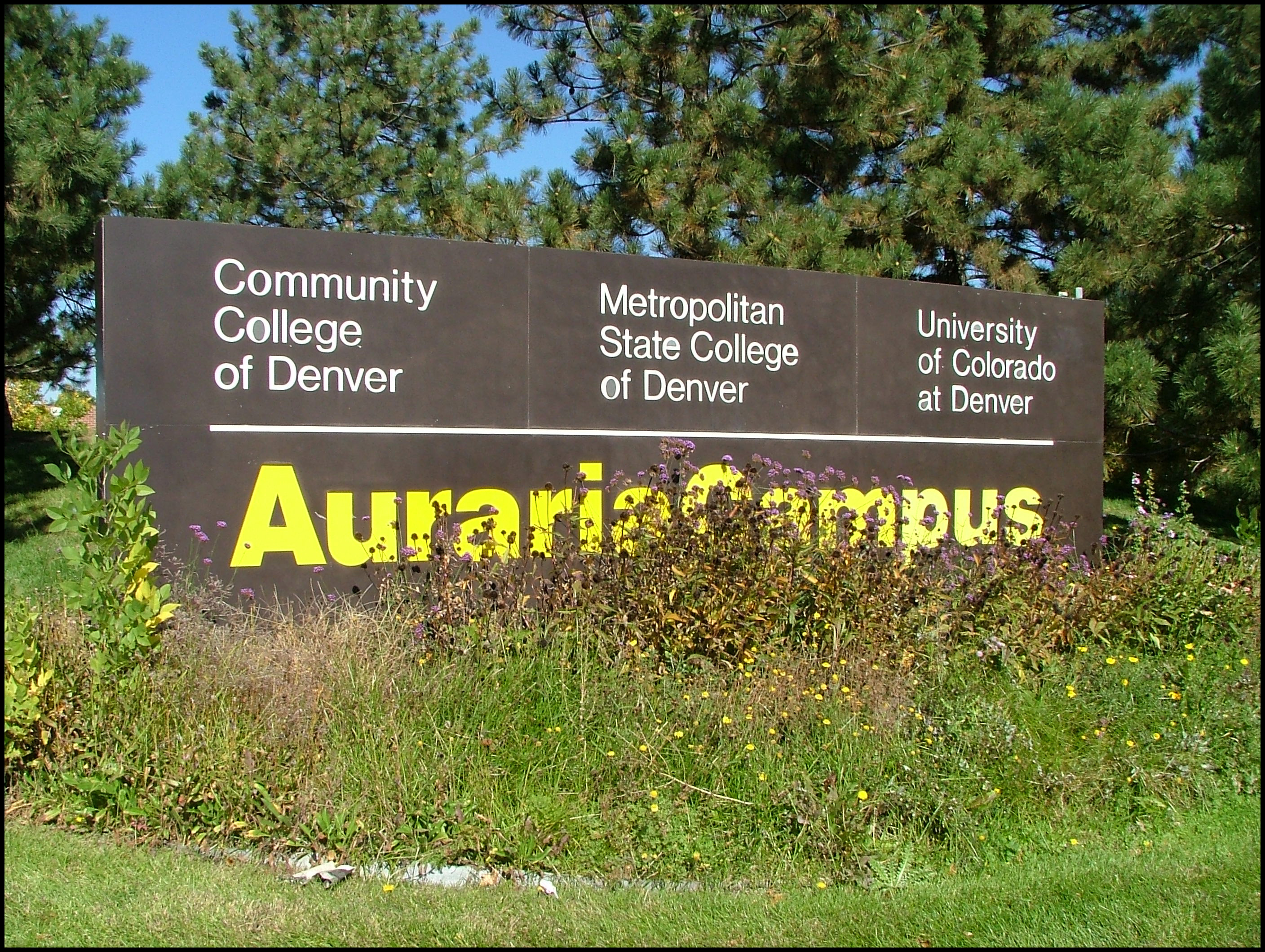 Picture of one of the Auraria Campus signs. I took the picture myself.